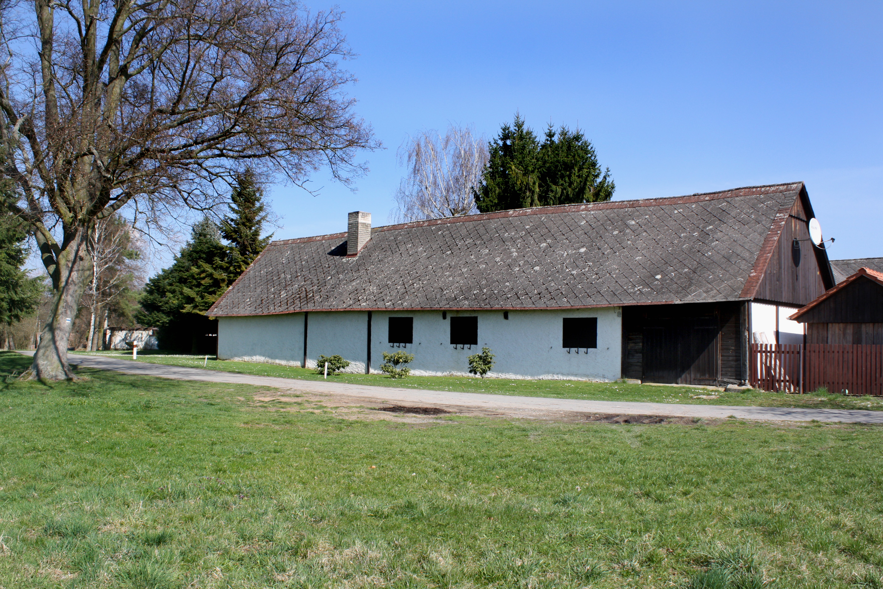 House No 12 in Poušť village, part of Záhornice, Czech Republic